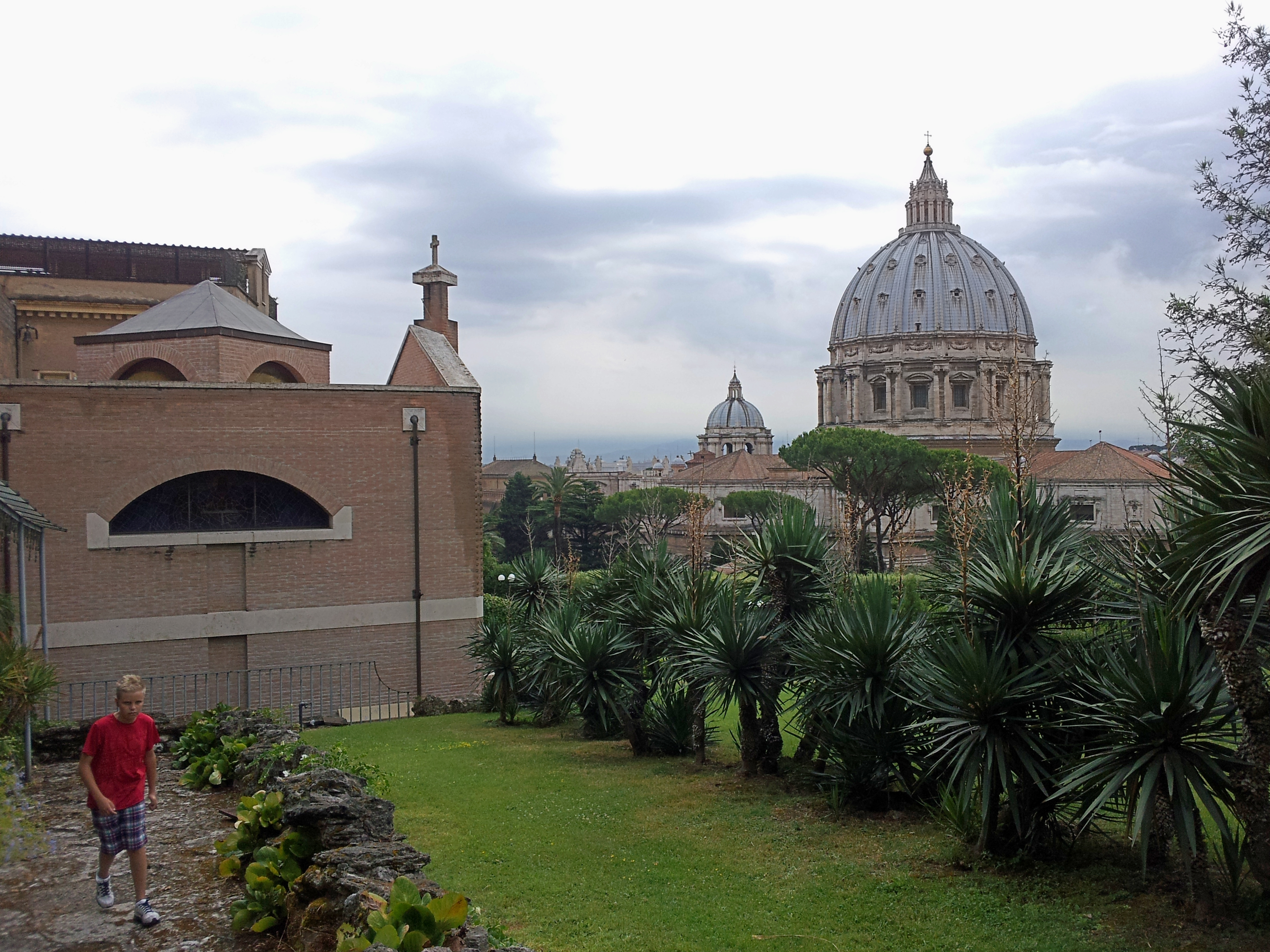 Left: The western part (chapel) of the Mater Ecclesiae monastery inside Vatican City. Right: Dome of Saint Peter's basilica